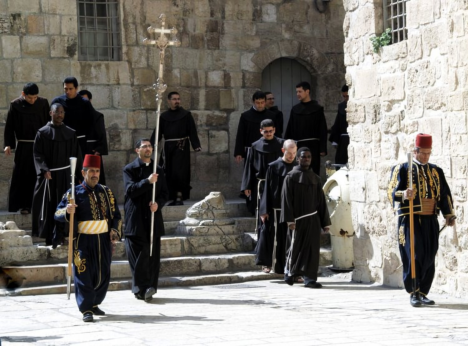 Religion in Israel - Procession on the parvis of the Church of the Holy Sepulchre headed by Kawas (Ottoman guards).